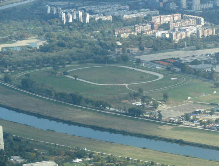 Hippodrome in Zagreb, Croatia, from the air